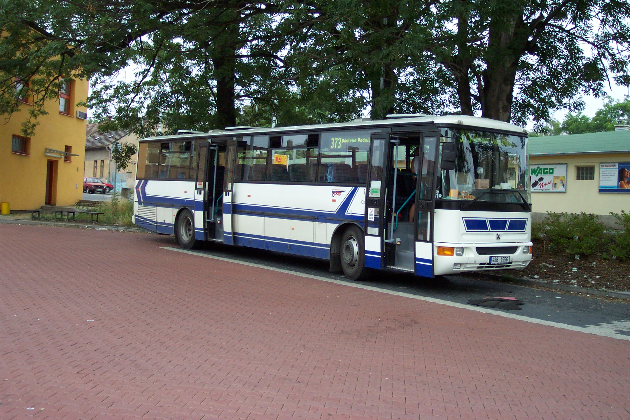 Bus type Karosa C954 in Prague-Kobylisy